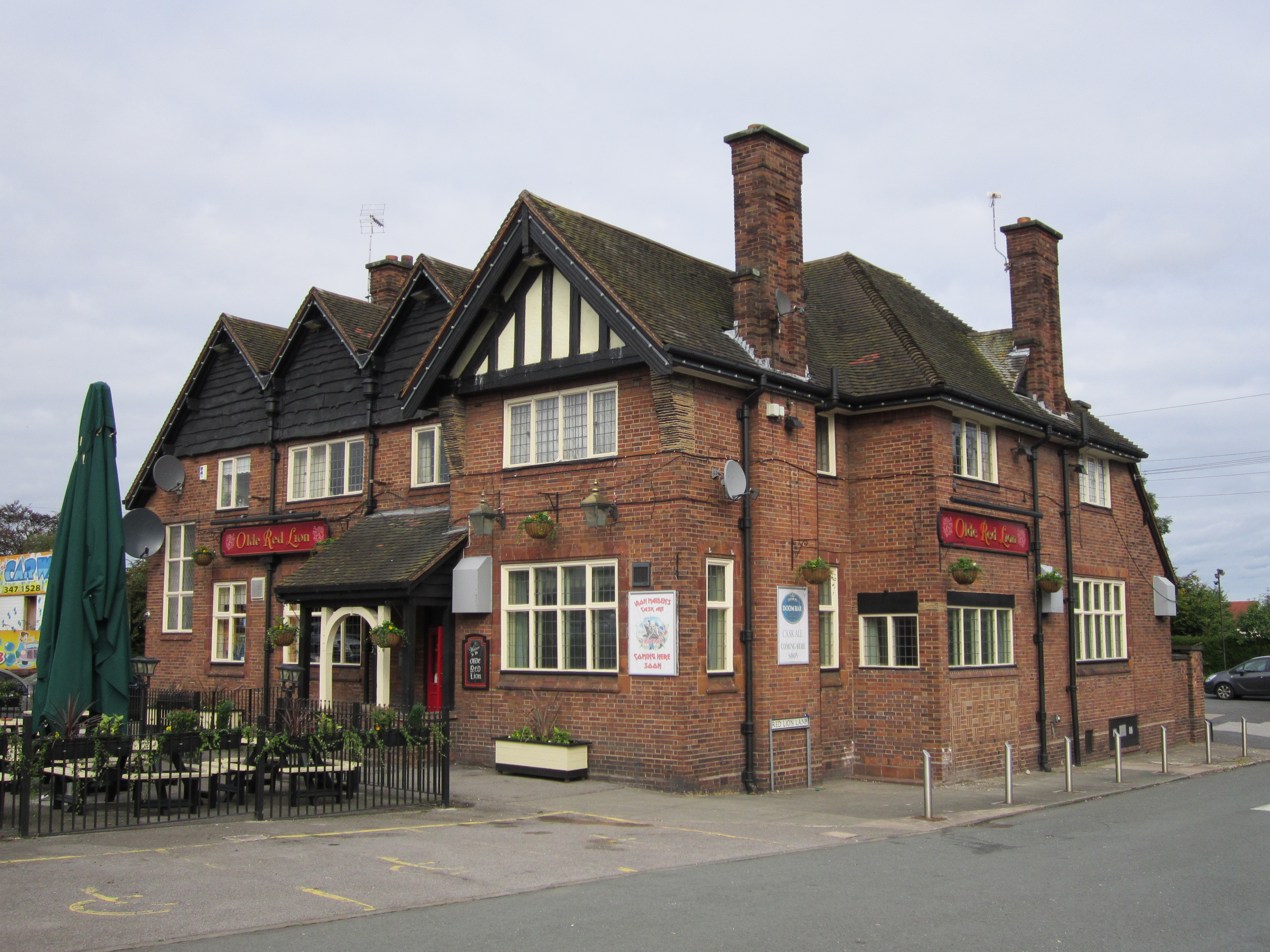 Photo taken at Little Sutton, Cheshire, England.